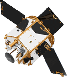 This image is the work of Astronautic Technology (Malaysia) Sdn. Bhd., a wholly owned private limited corporation under the Minister of Finance Inc. (Malaysia). As such, this work can be considered as work by the Federal Government of Malaysia. The copyright holder of this file allows anyone to use it for any purpose, provided that the copyright holder is properly attributed. Redistribution, derivative work, commercial use, and all other use is permitted.